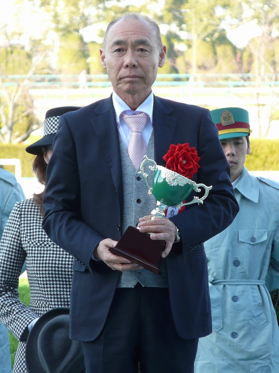 Hidekazu-Asami20110226